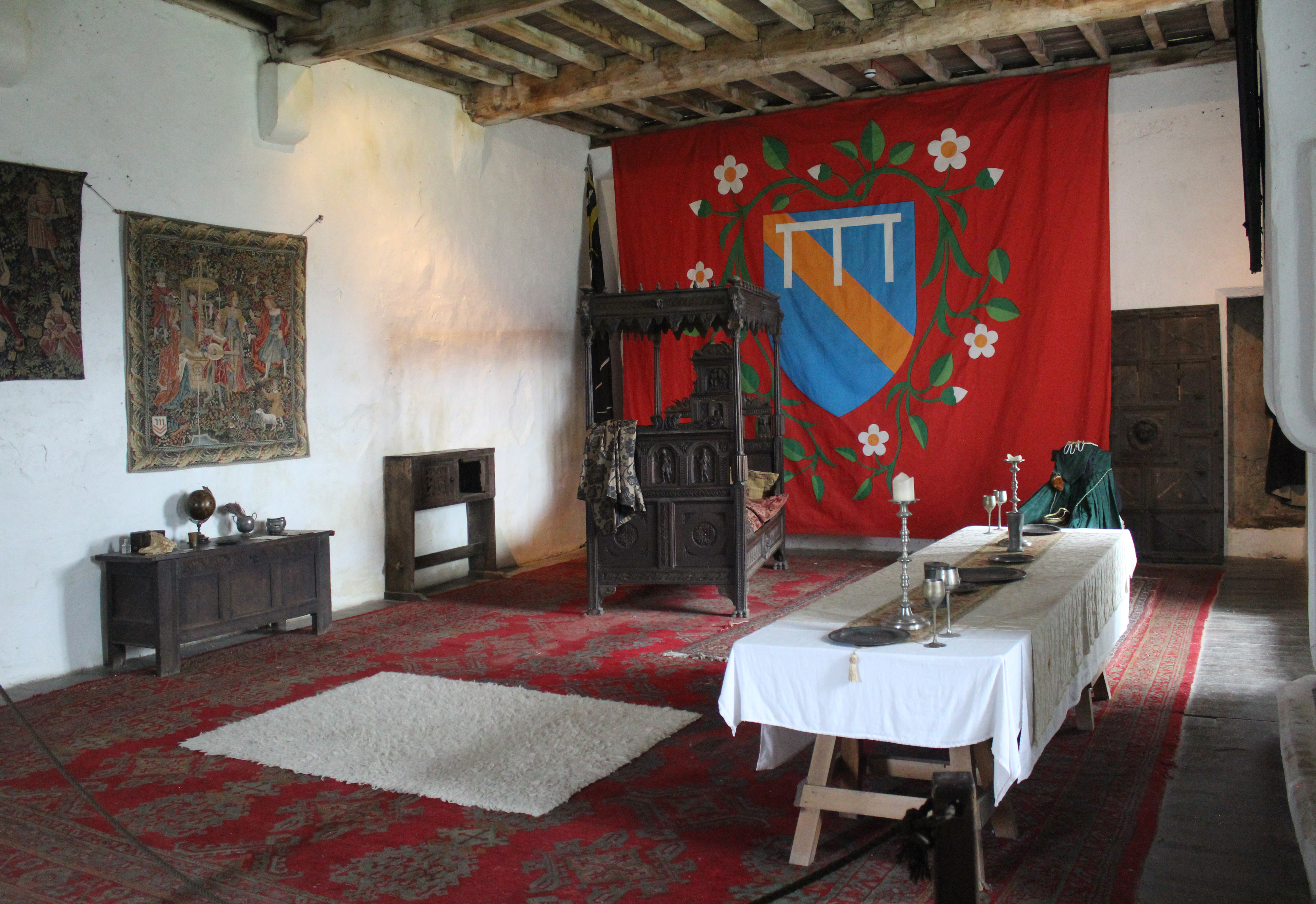 Reconstruction of the bedchamber of Mary, Queen of Scots at Bolton Castle. The room is the original room but the furnishings are typical of those that would have been found there. She was held at the castle from July 1568 until January 1569 and occupied the rooms usually used by Lord Scrope the castle's owner. She was allowed her own domestic staff.